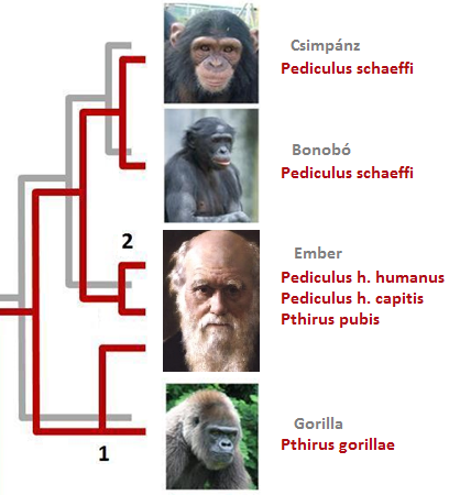 Hominine lice (with Hungarian subtitles)